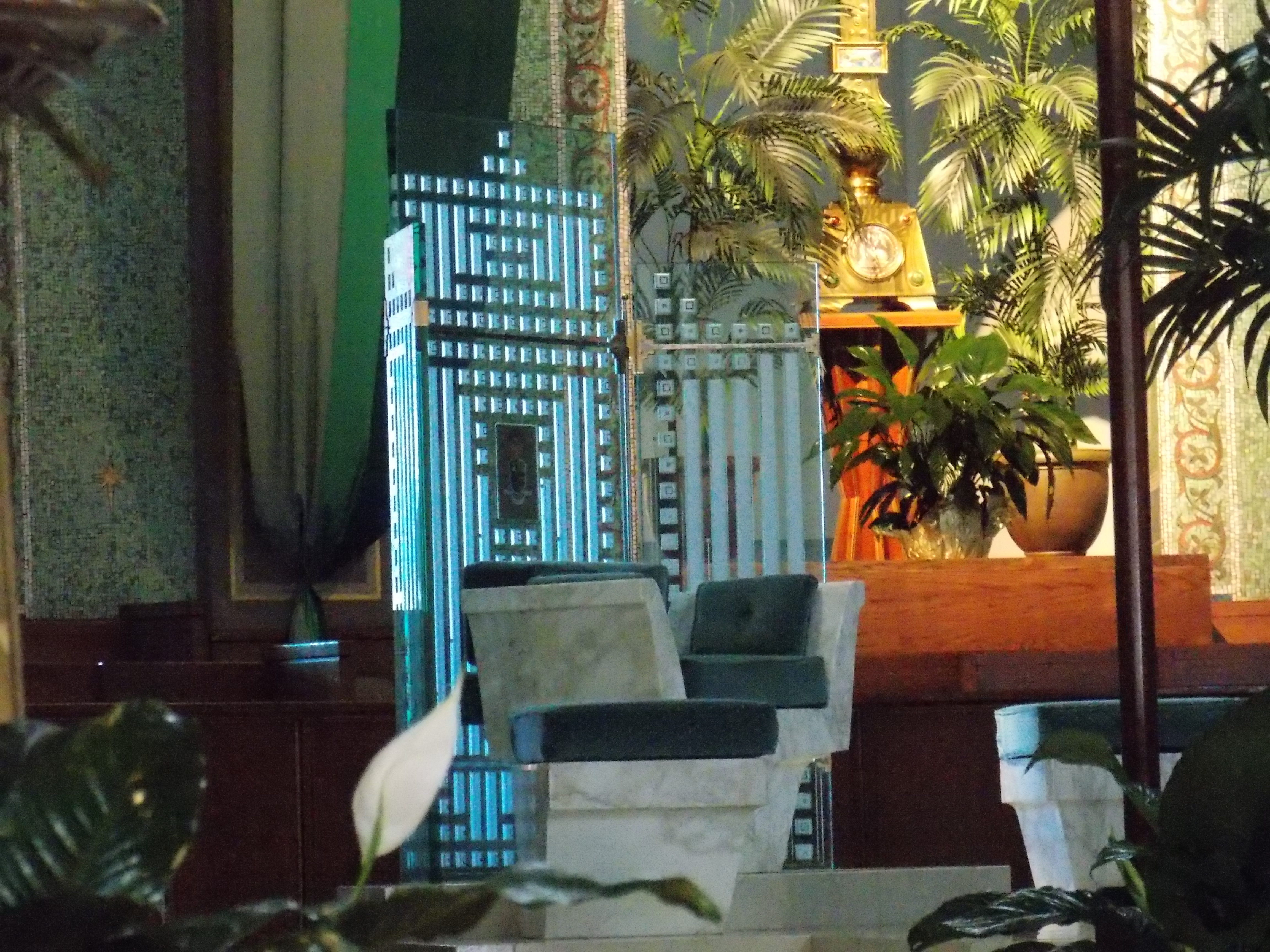 The bishop's chair of the Cathedral of the Blessed Sacrament, Altoona, Pennsylvania.